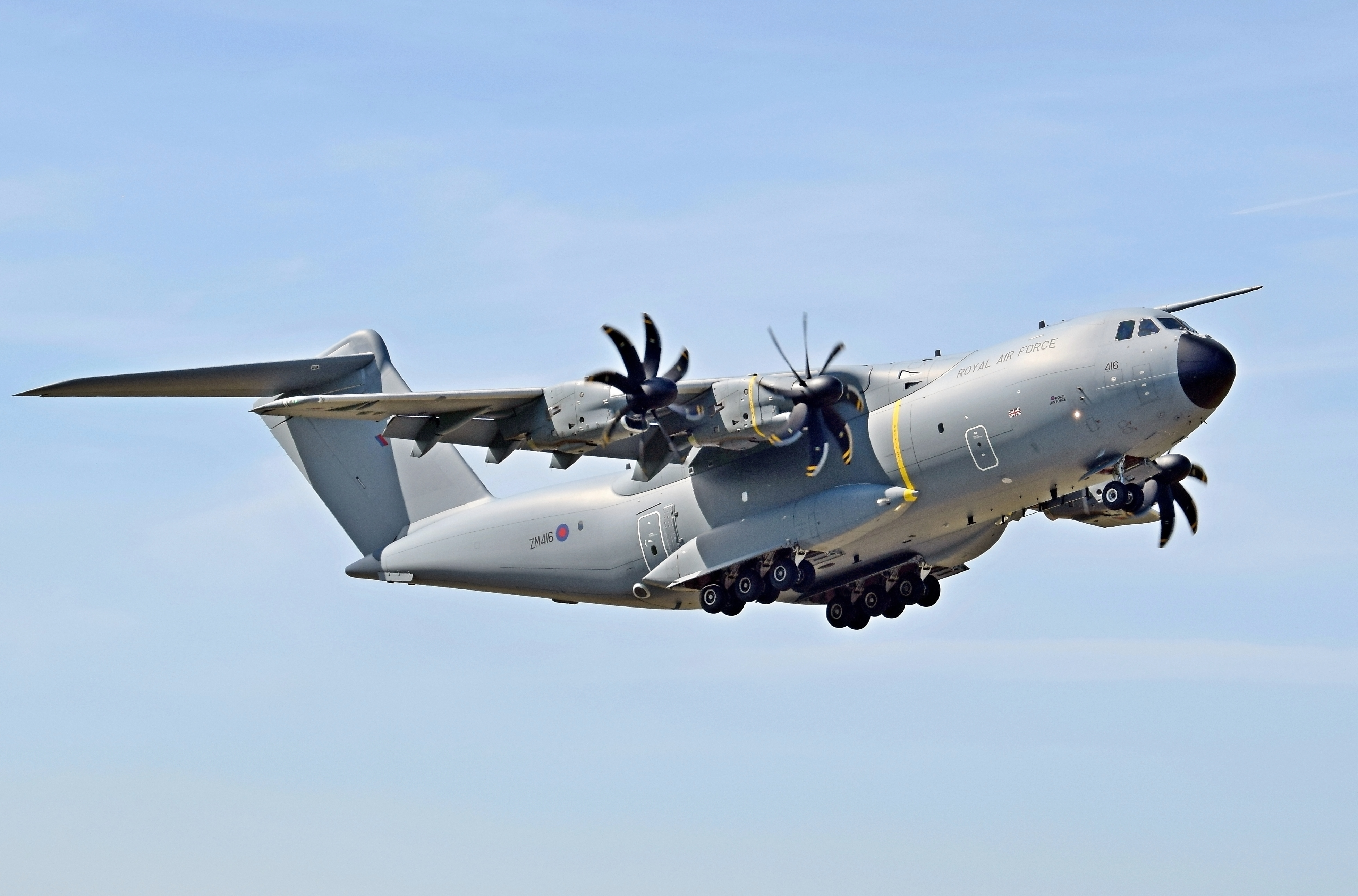 An Airbus A400M Atlas transport aircraft of the Royal Air Force does a training approach to Bristol Airport, England. NOTE: I said XM416 in the filename, this should have been ZM416. Sorry!!